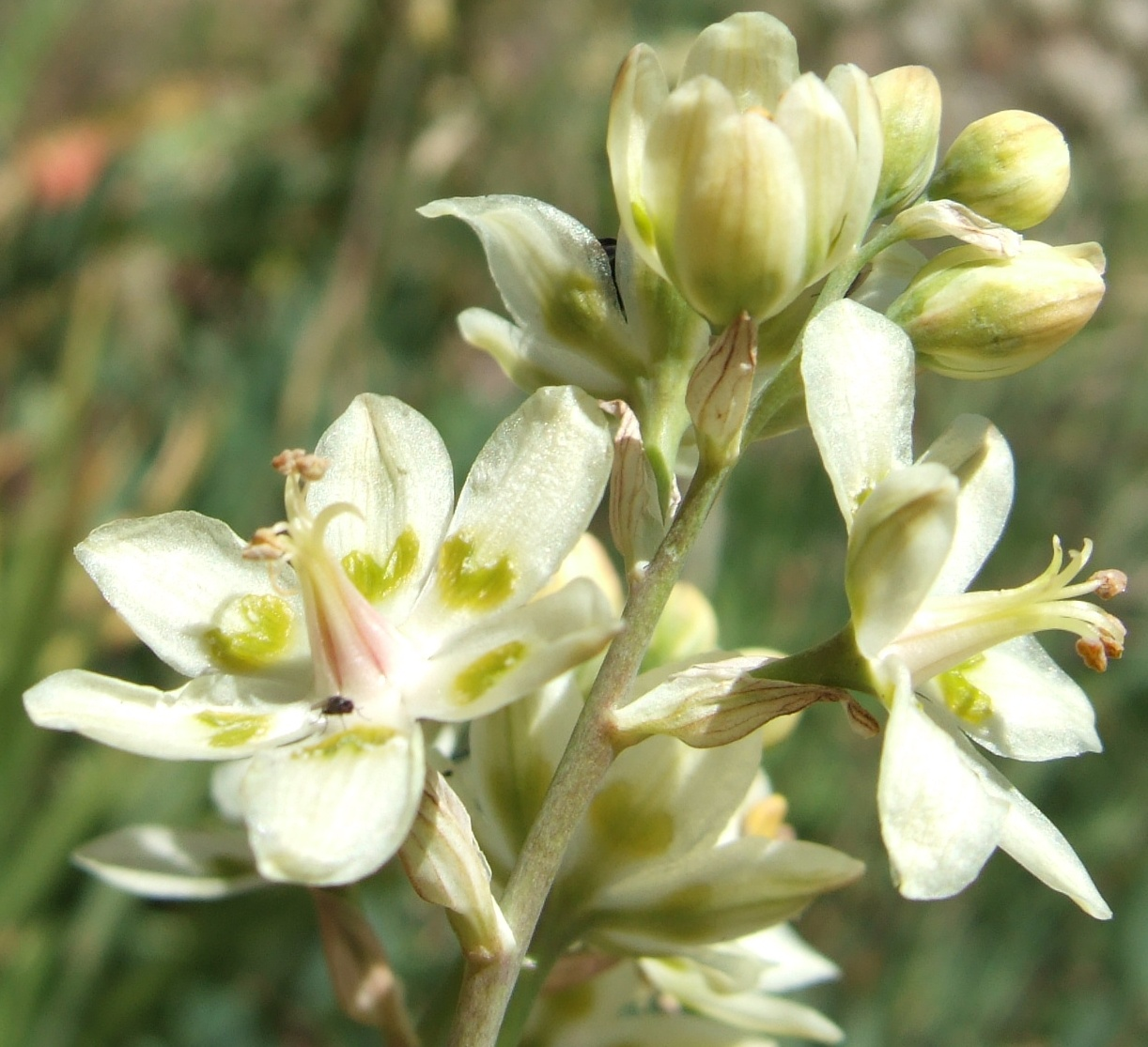 Closeup of Zigadenus species (probably Zigadenus elegans) from Glacier National Park, Montana, USA. Taken by Adam Humphreys in 2006.